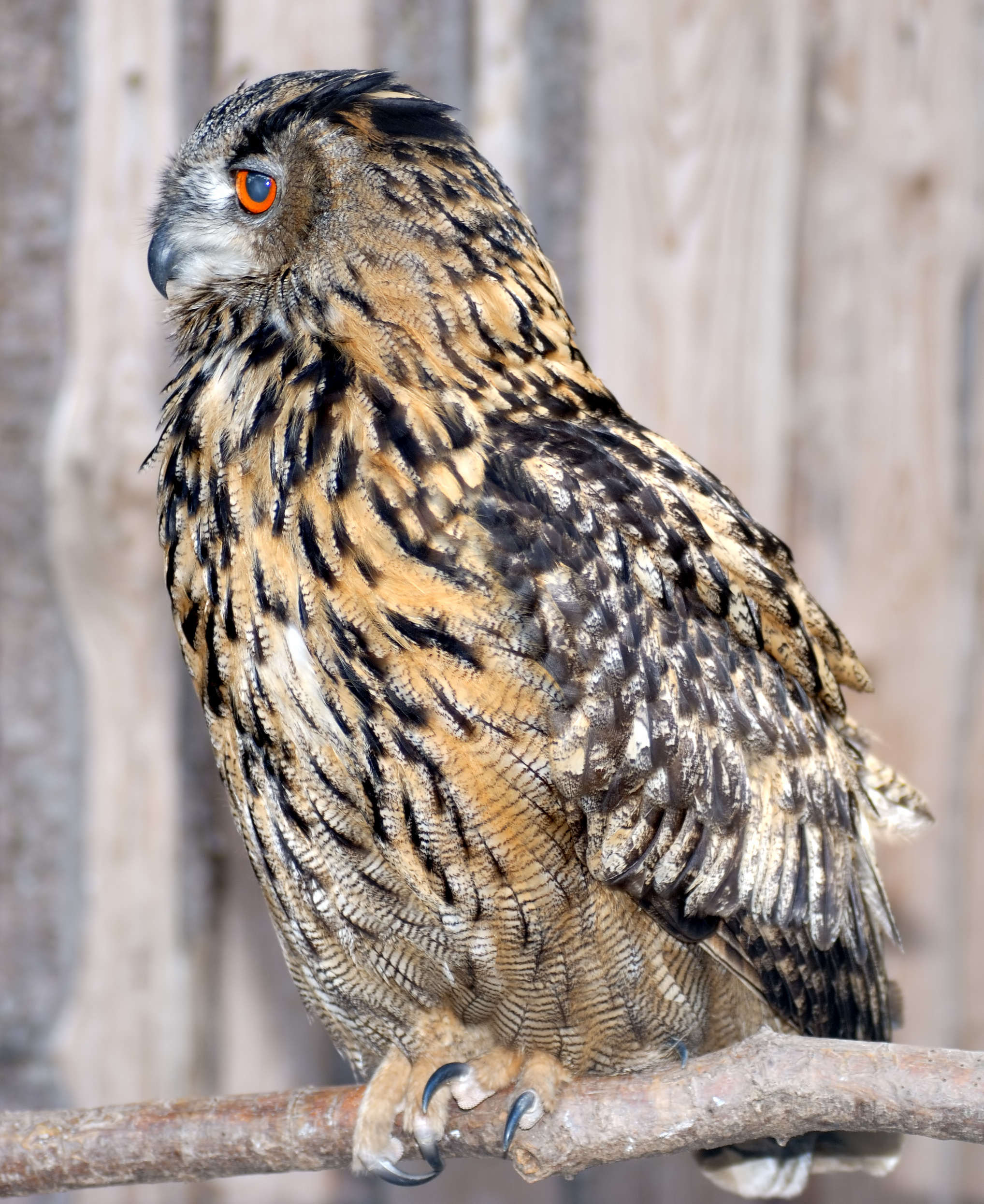 This image shows an Eurasian Eagle-owl (bubo bubo) from the side.